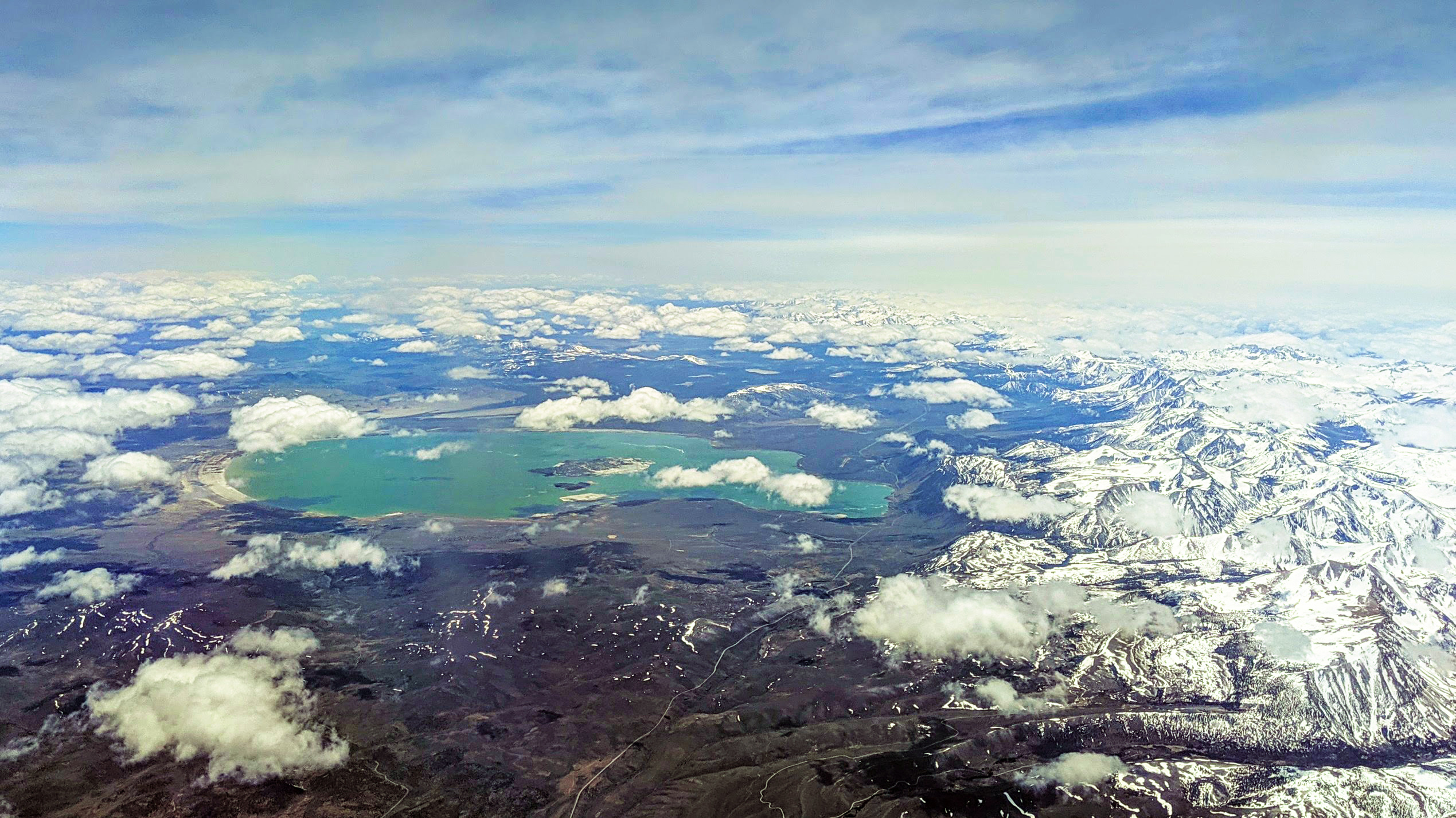 Aerial view from the north of Mono Lake in May 2019, showing a generous snow pack from a wet rainy season, promising a good summer for Mono Lake